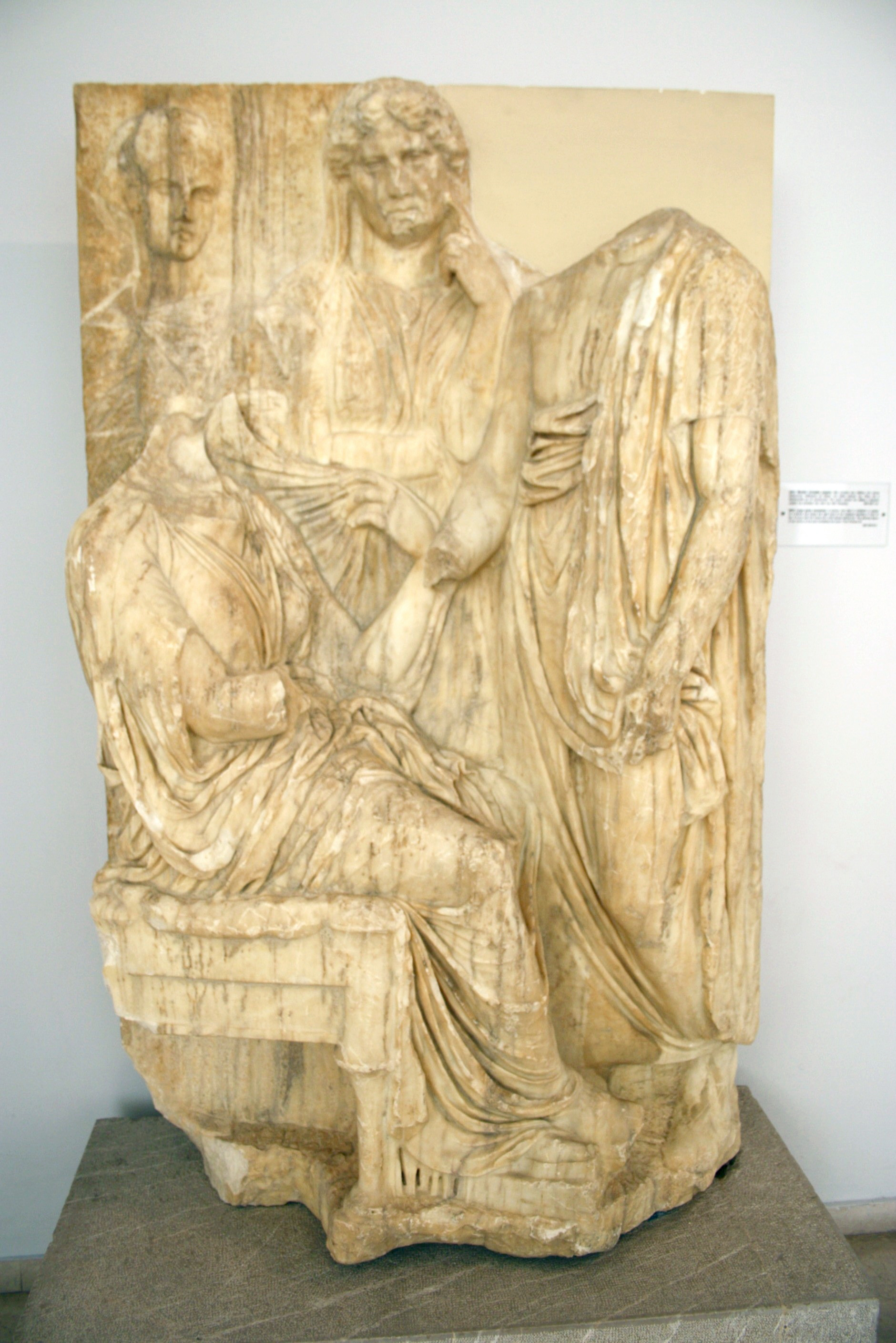 Attic funerary stele, showing a seated woman who died in childbirth bidding farewell to her husband, mother and newborn's nurse. Around 350/330 BC. On display in the Room of the so-called "Monuments for the Metics", at the first floor of the Archaeological Museum of Piraeus (Athens). Picture by Giovanni Dall'Orto, November 14 2009.